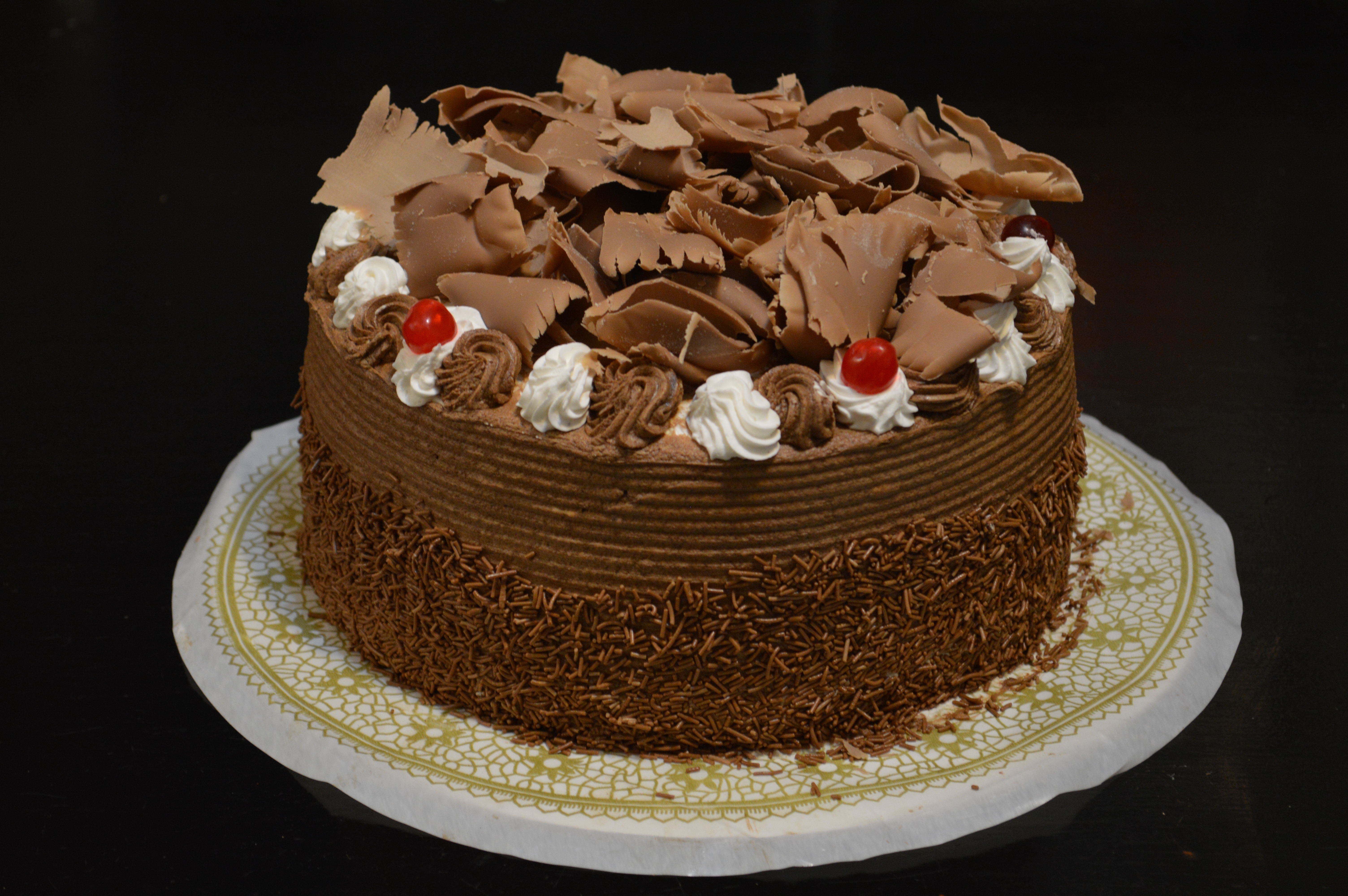 Chocolate truffle cake from Ideal Bakery in the historic center of Mexico City